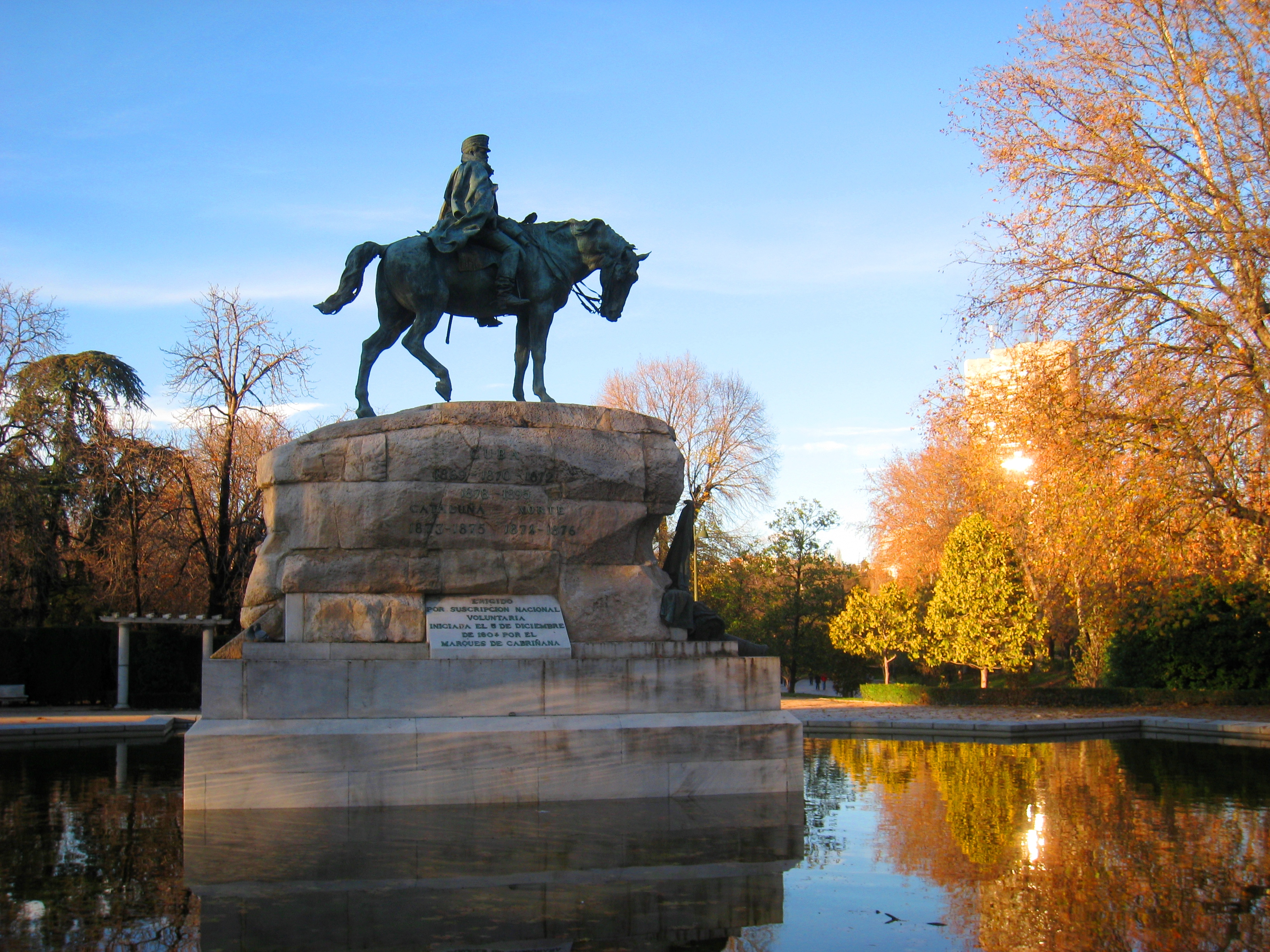 Monument to General Arsenio Martínez-Campos (1831–1900) in the Jardines del Buen Retiro in Madrid (Spain). Inaugurated in 1907. Made of flintstone, marble and bronze by sculptor Mariano Benlliure (1862–1947). Measurements: 7.00 x 5.65 x 7.40 metres.